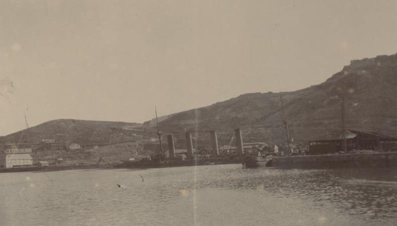 Bayan armoured cruiser in the port of Port Arthur (Russian Empire), photographed on January 4 1905 (the day after the Japanese conquested it), as it appeared to Italian Admiral Ernesto Burzagli (1873-1944), Italian naval attaché in Tokio, who sailed from Yokohama (Japan) on a diplomatic mission to Port Arthur, during the Russo-Japanese War. The original picture, scanned by Emiliano Burzagli, belongs to the Private archive of Burzaghi family, Italy.